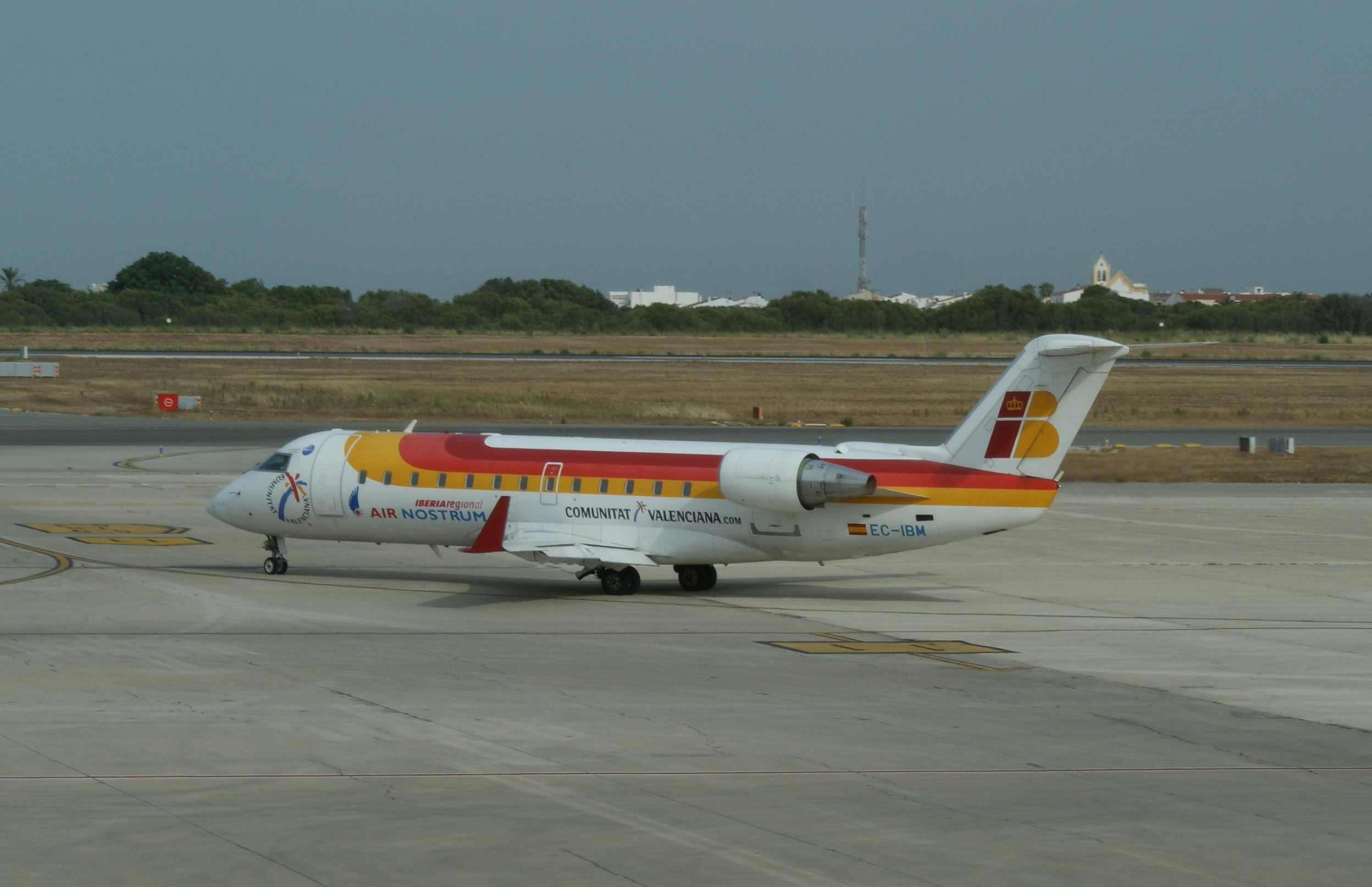 Bombardier (Canadair) CRJ-100 of Air Nostrum at Menorca Airport, 05/12.